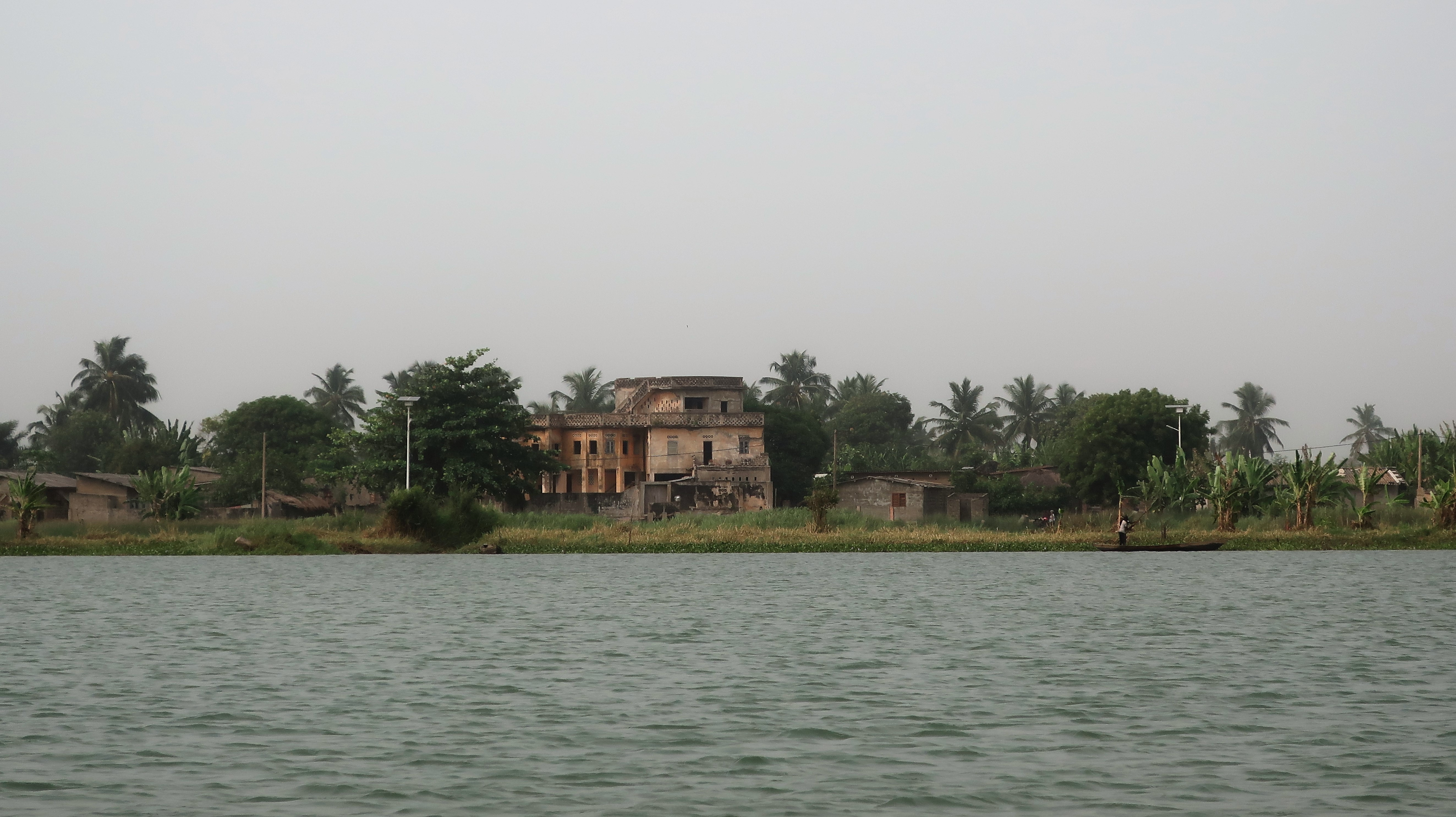 Lagoon, two storeyed house